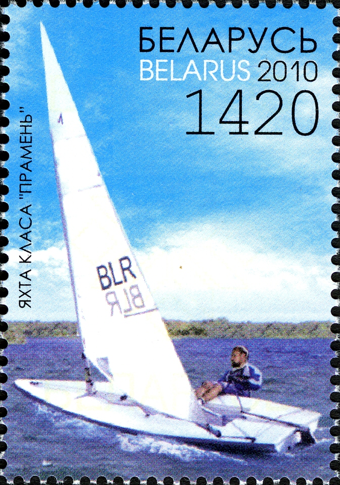 Stamp of Belarus